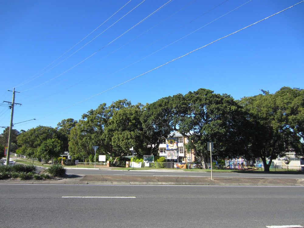 Northwest corner of Moorooka State School, view from Beaudesert Road, from northwest (EHP, 2 June 2015)